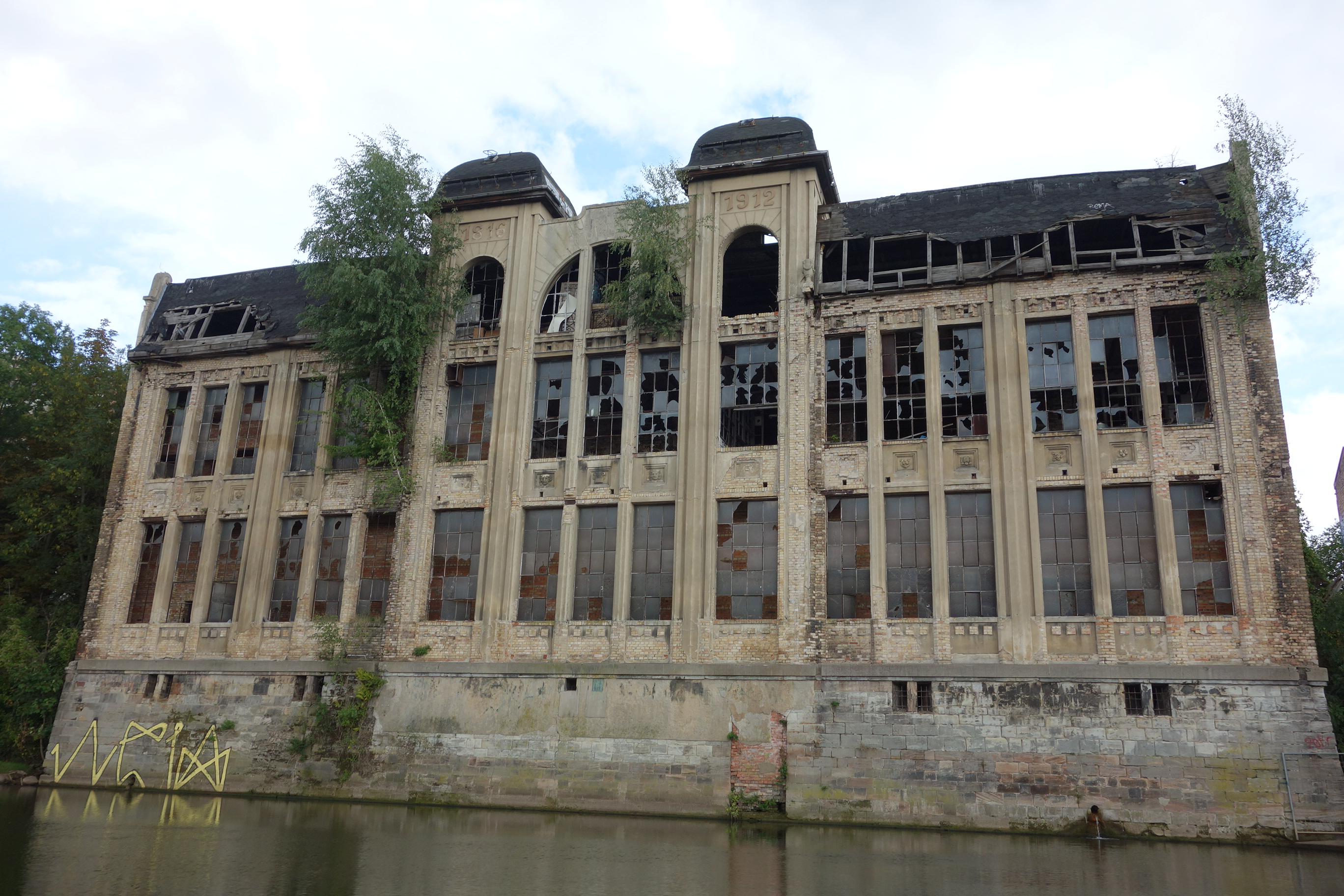 ruin building in Halle (Saale), former Freybergsche Brauerei, Glauchaer Strasse